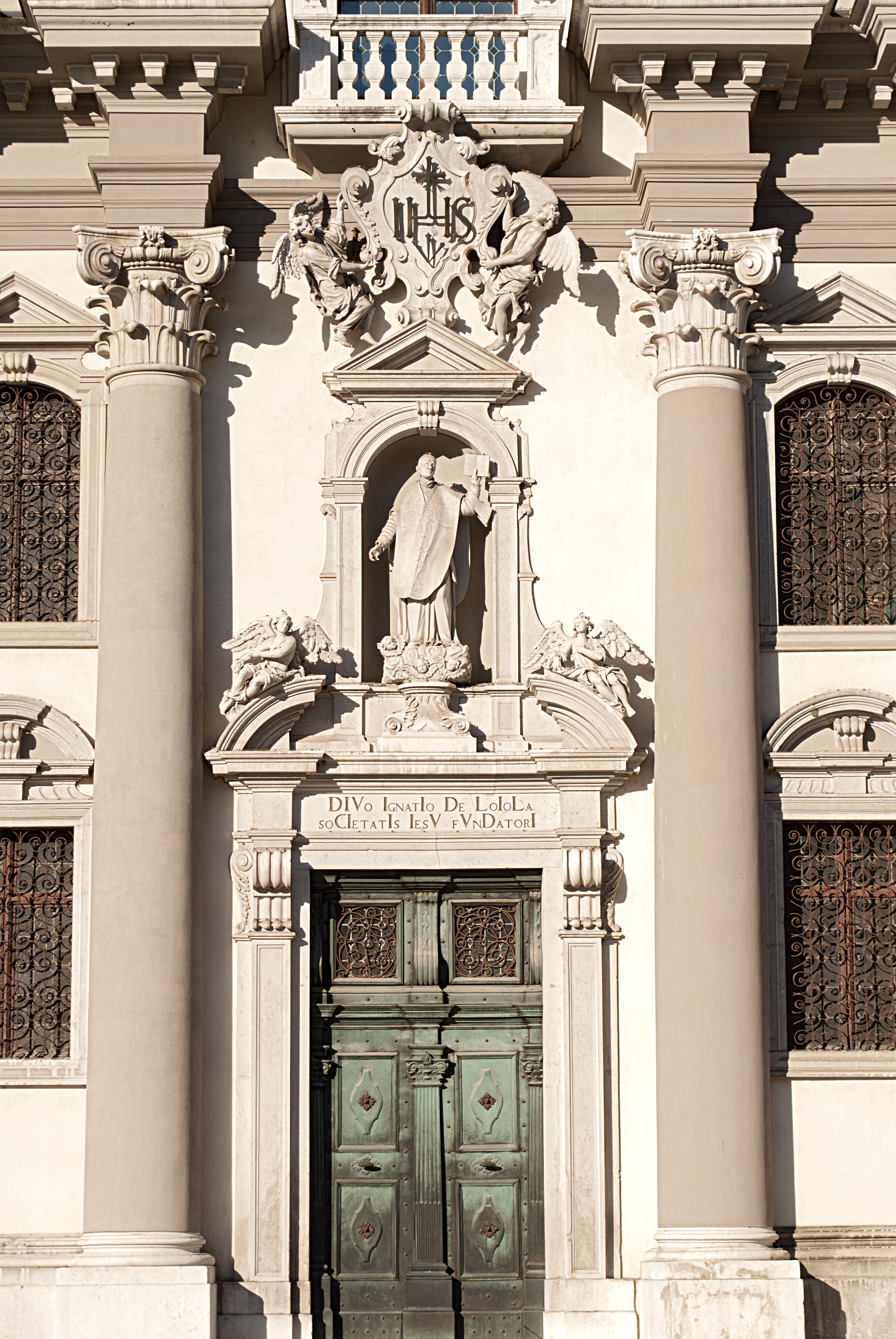 Church of Sant Ignatius in Gorizia, Italy; view of the facade (especially of the main door).